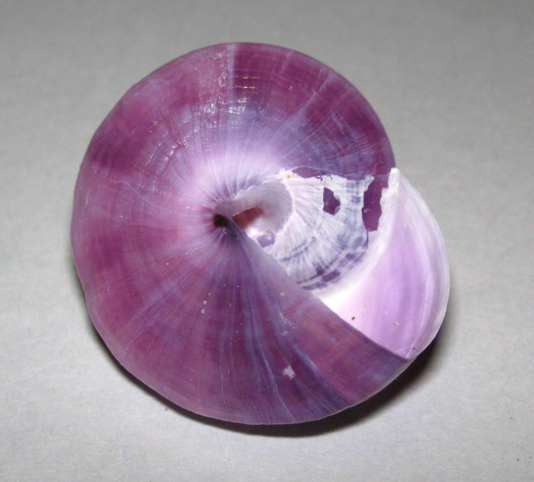 Janthina janthina Linnaeus, 1758 - purple sea snail shell from Texas, USA (umbilical view; modern, latest Holocene; ~2.35 cm across at its widest). The purple sea snail is a remarkable organism. There are several valid, named species, but the most common and widespread form is this - Janthina janthina. The snail makes a thin calcareous shell that is dark purple-colored in the lower parts and whitish to pale purplish-colored in the upper parts. This is a good example of reverse countershading. Ordinary countershading involves organisms, such as halibut fish, having dark-colored uppersides and light-colored lowersides. This makes it difficult for predators to see them from above or from below. Janthina is reverse countershaded. One would surmise that the purple sea snail's body is therefore upside-down while it is the water. This is exactly the situation. Janthina makes a bubble raft and the shell is oriented spire-downward (or close to it). The result is an organism that is dark on top and light on bottom. Janthina is a part of the macrozooplankton in the world's oceans. It's bubble raft keeps it from sinking in the water column. It preys on jellyfish-like medusiform organisms such as Physalia, Velella, and Porpita (Phylum Cnidaria, Class Hydrozoa). In ancient times, one source of purple dye for clothing was Janthina purple sea snails. Classification: Animalia, Mollusca, Gastropoda, Janthinidae Locality: unrecorded post-storm Gulf of Mexico beach, coastal Texas, USA The gastropods (snails & slugs) are a group of molluscs that occupy marine, freshwater, and terrestrial environments. Most gastropods have a calcareous external shell (the snails). Some lack a shell completely, or have reduced internal shells (the slugs & sea slugs & pteropods). Most members of the Gastropoda are marine. Most marine snails are herbivores (algae grazers) or predators/carnivores.